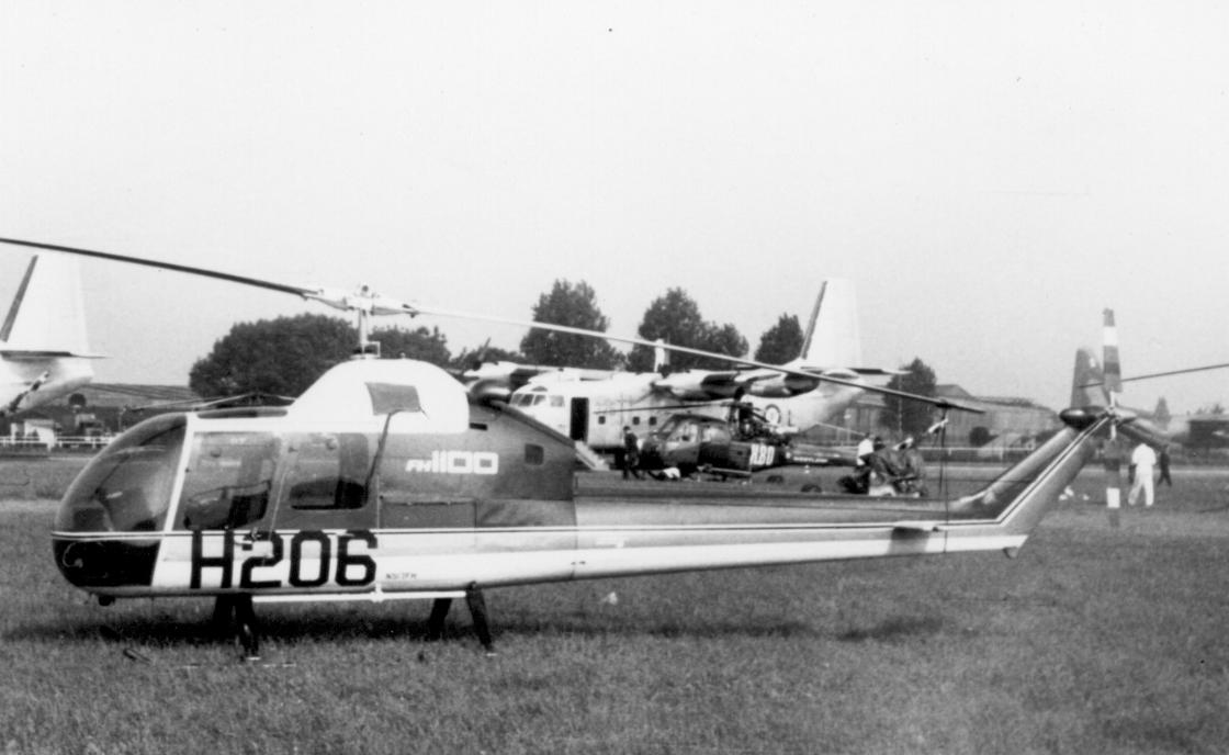 Fairchild-Hiller FH-1100 N517FH at the 1967 Paris Air Show, Le Bourget